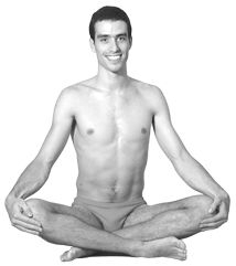 Sukhásana - Yôga position